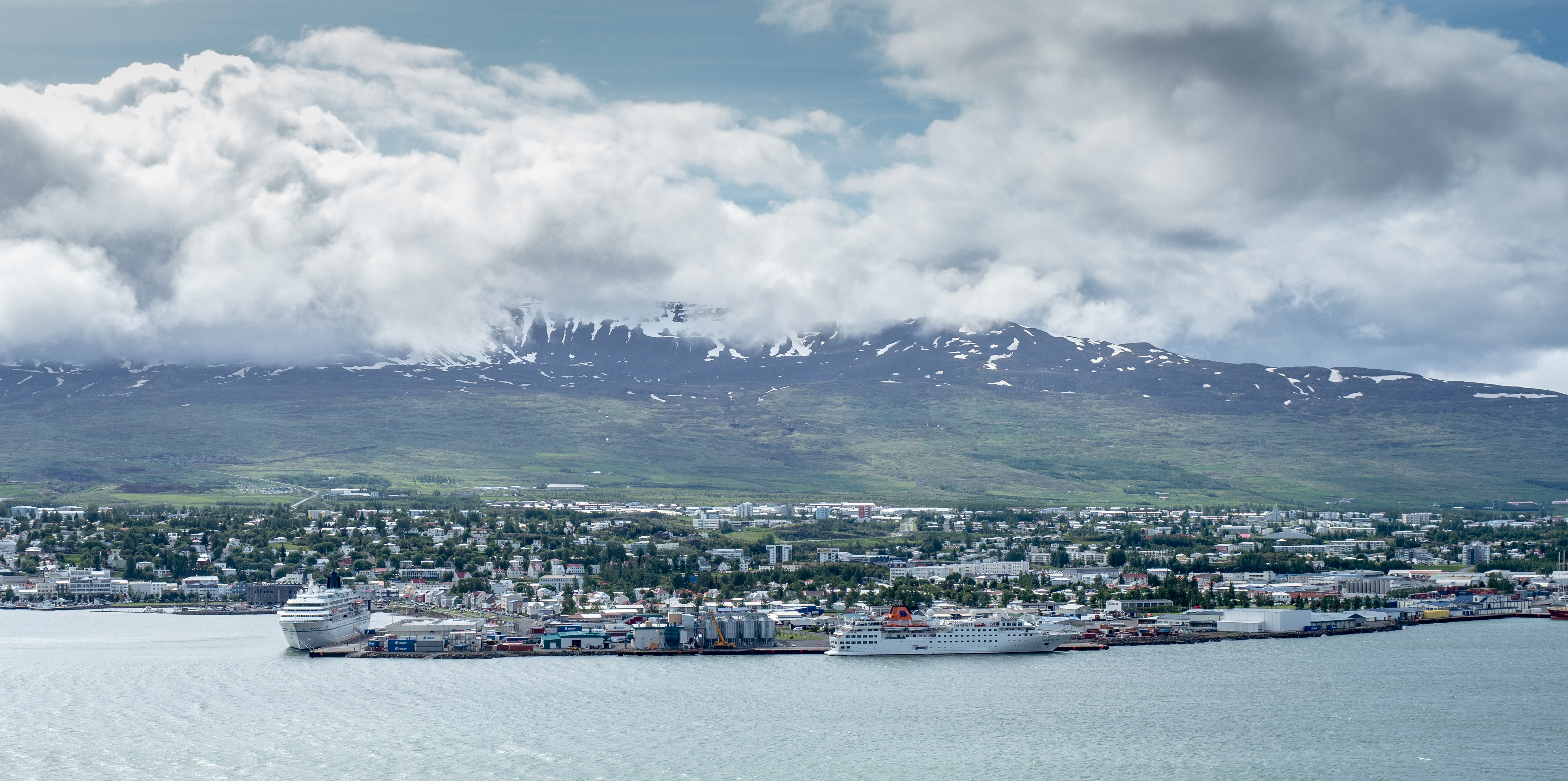 Akureyri Iceland